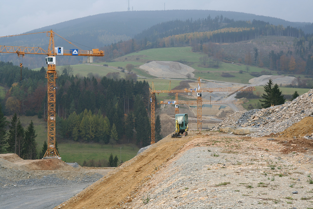 Future railway station of Theuren, with a view north on the Bleßberg